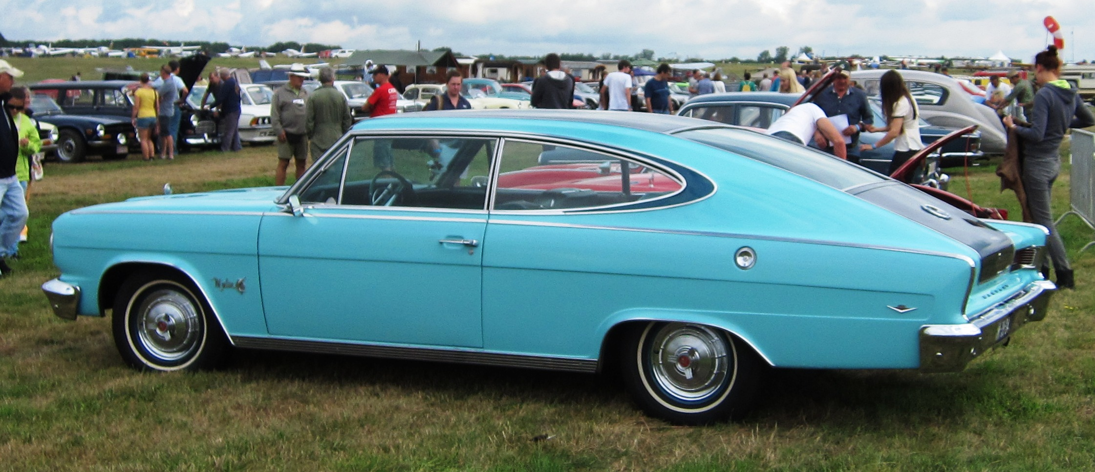 Rambler Marlin Fastback 1965